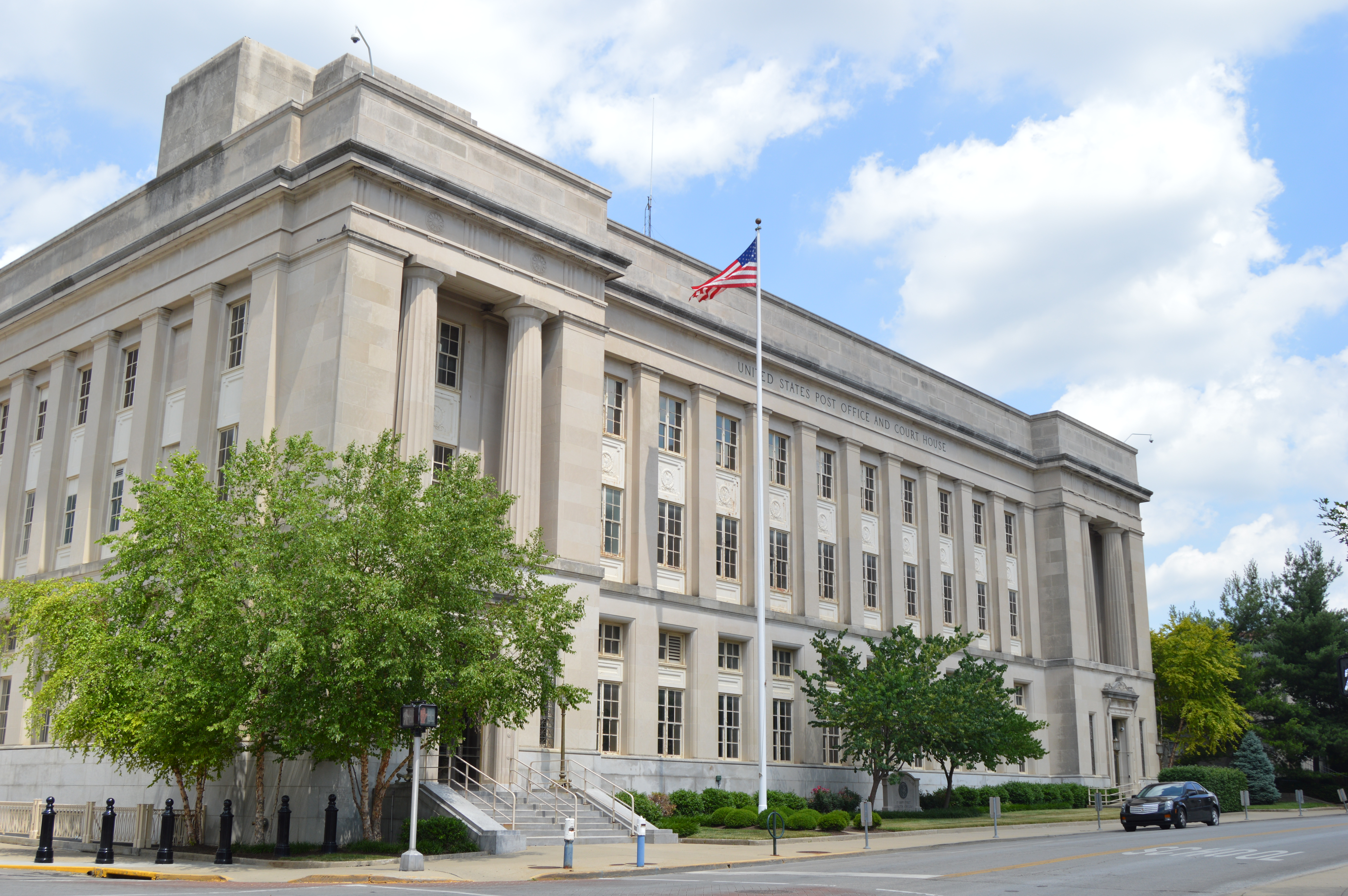 Front of the United States Post Office and Court House (no longer a post office), located at 101 Barr Street in Lexington, Kentucky, United States. Built in 1934, it is listed on the National Register of Historic Places.